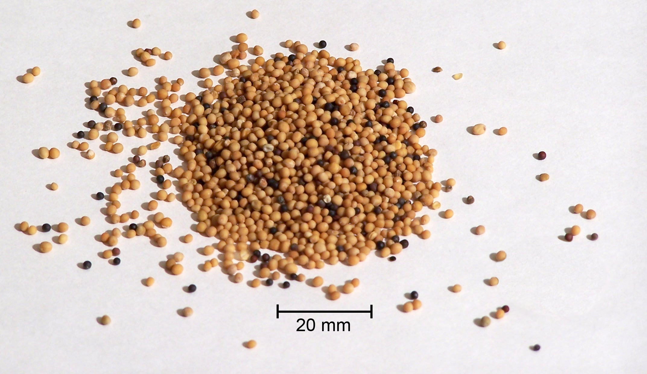 Mustard seeds by David Turner February 23, 2005 Edited by Consequencefree to replace the coin with an SI measurement reference